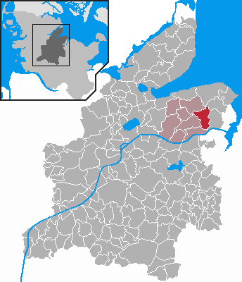 Locator maps of municipalities in Schleswig-Holstein - District Rendsburg-Eckernförde